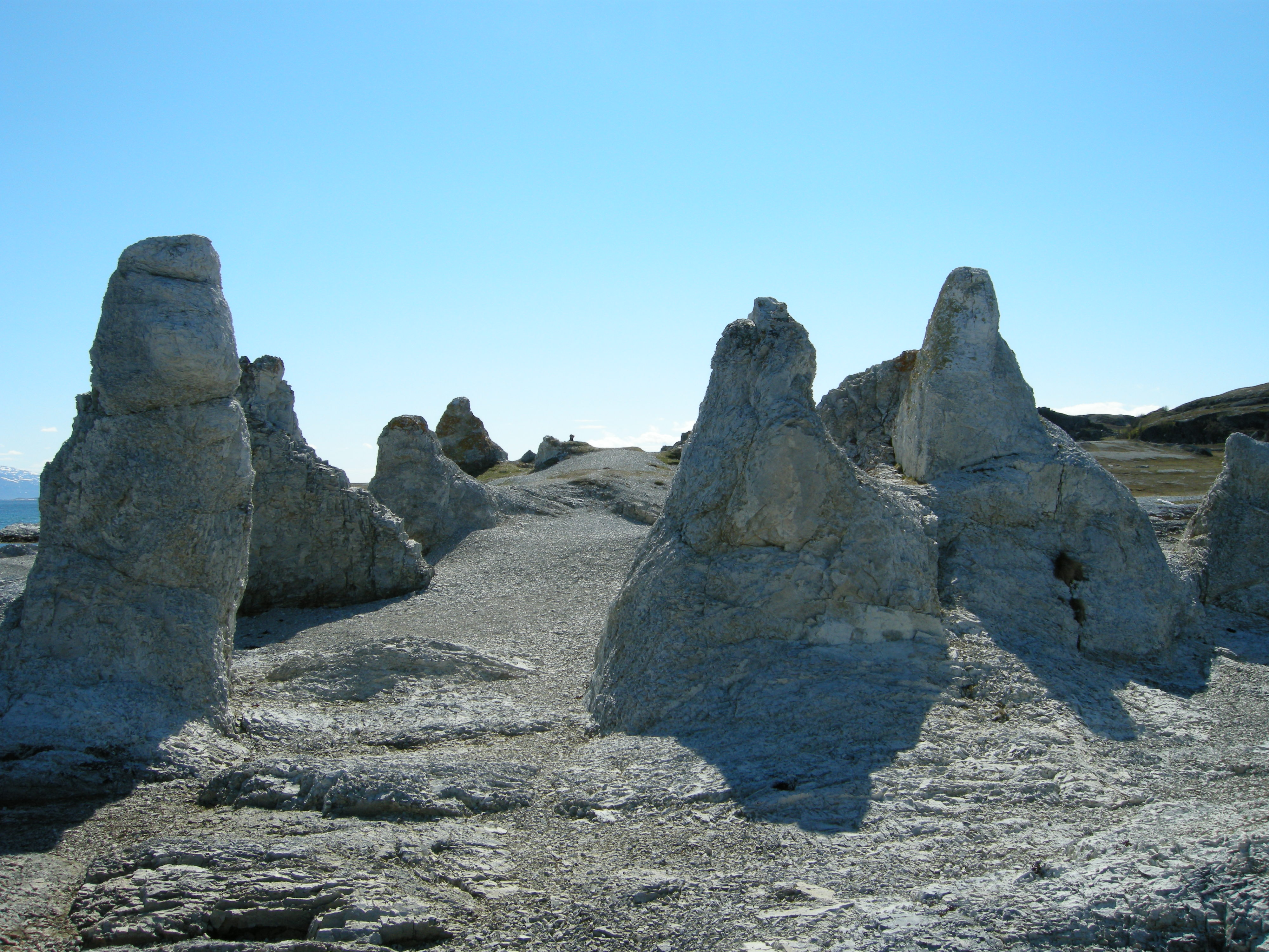 The trolls in Trollholmsund (dolomit)